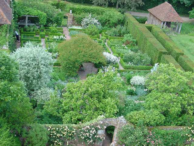 Sissinghurst Castle Garden - The White Garden. Looking into the famous "White Garden" from the tower of Sissinghurst Castle. This National Trust garden (designed by Vita Sackville-West) has a series of garden "rooms", all with a particular theme. The White Garden has white plants (foliage and/or flowers).